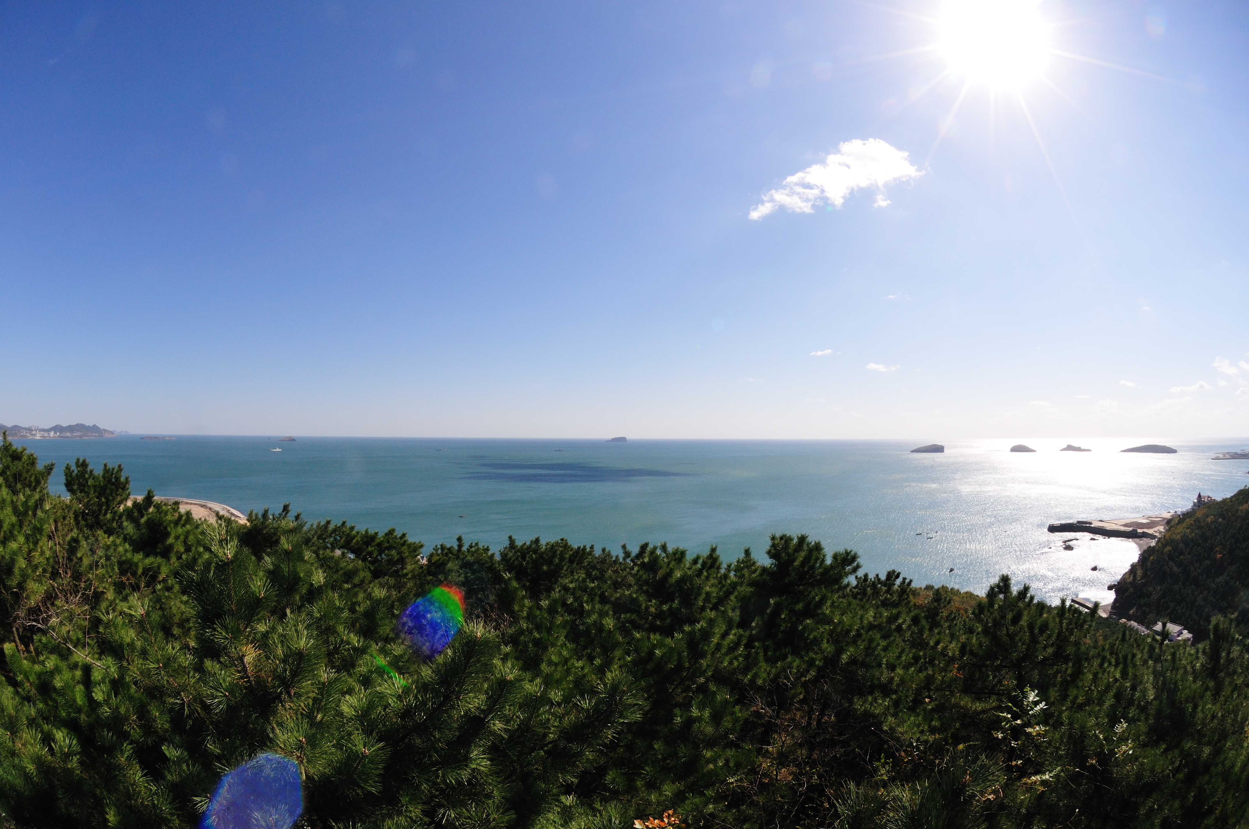 Shore in Dalian, China